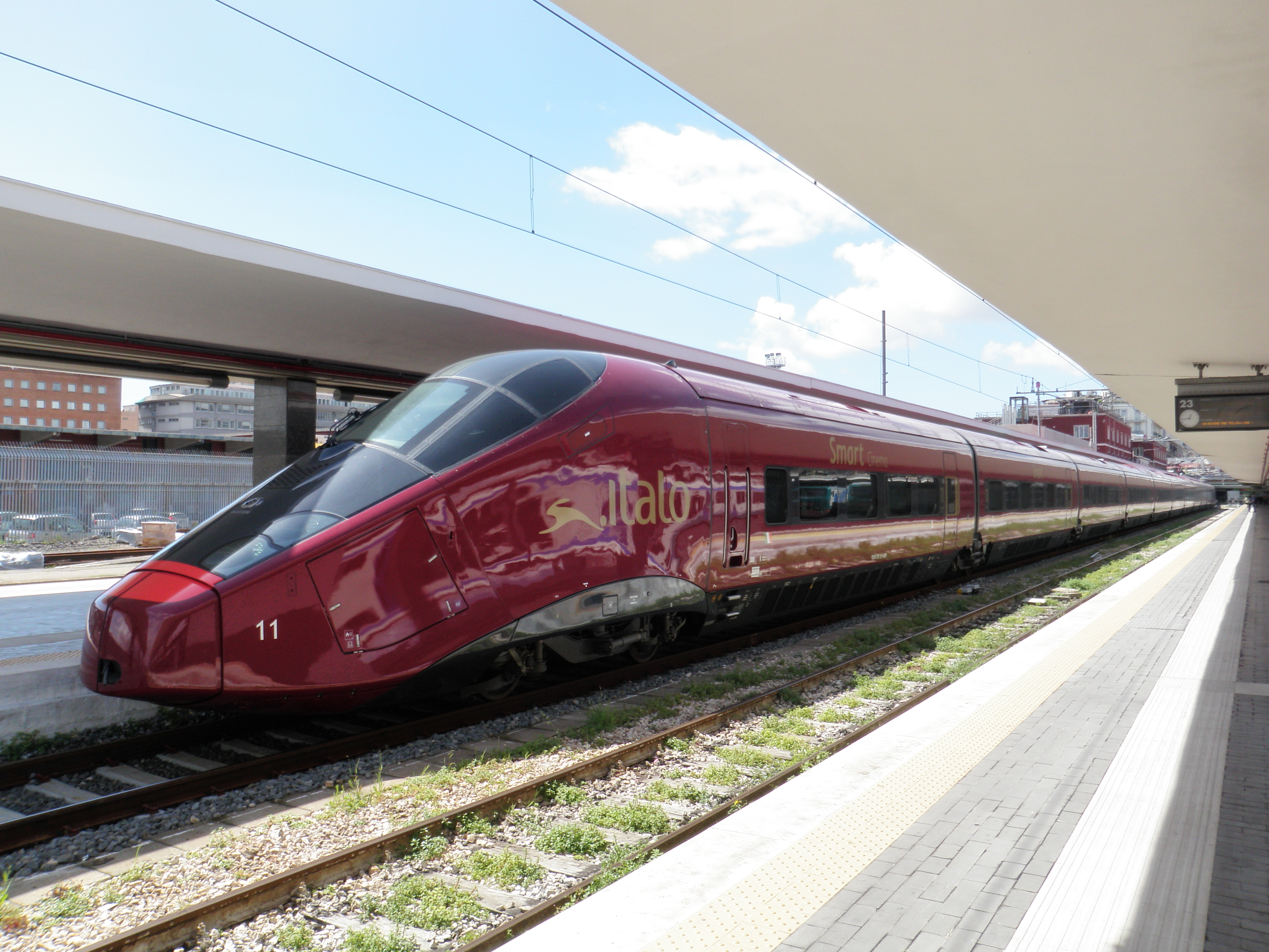 Alstom AGV .italo from NTV in Napoli Centrale railway station.